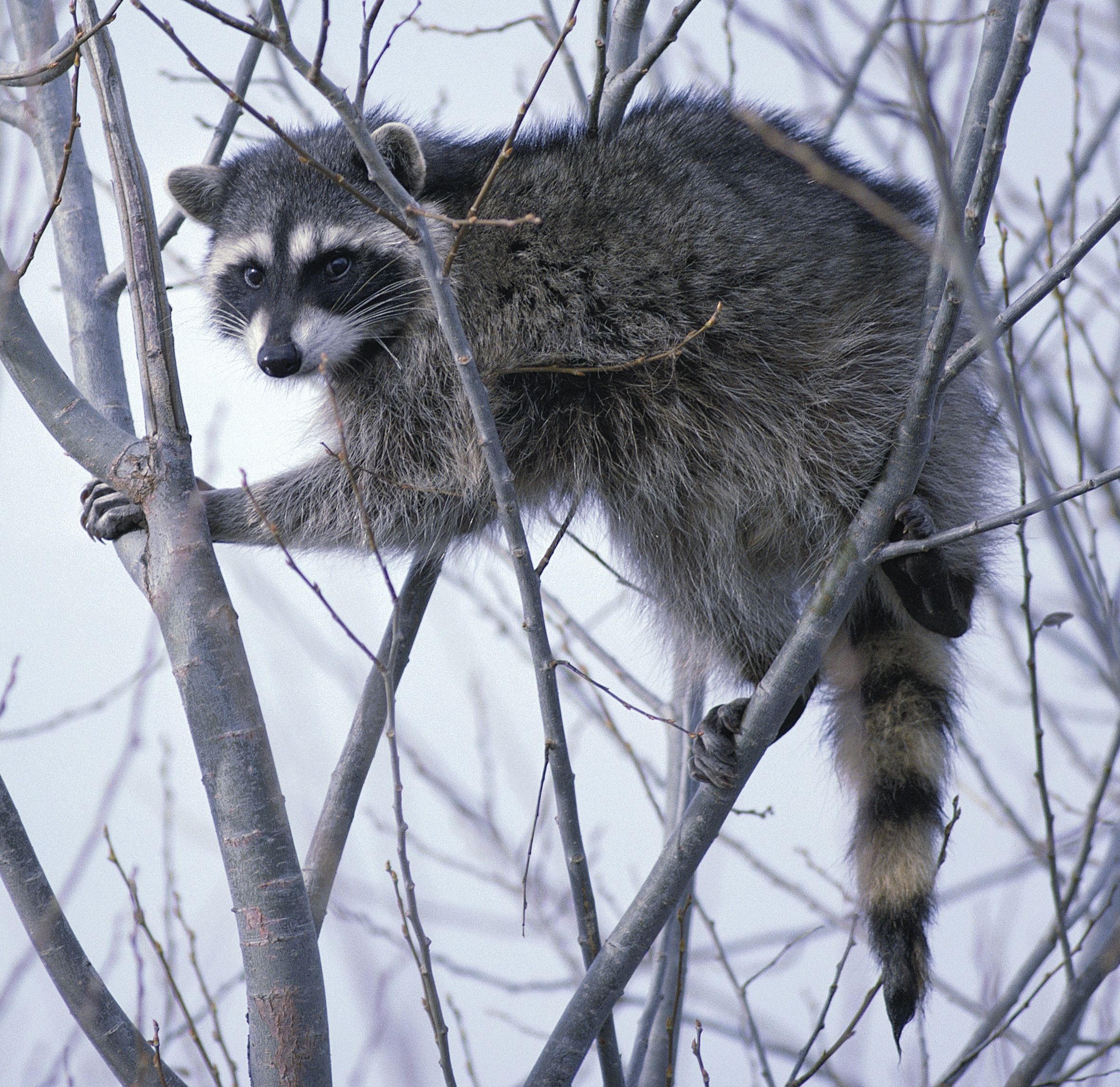 Raccoon photographed Lower Klamath National Wildlife Refuge in California